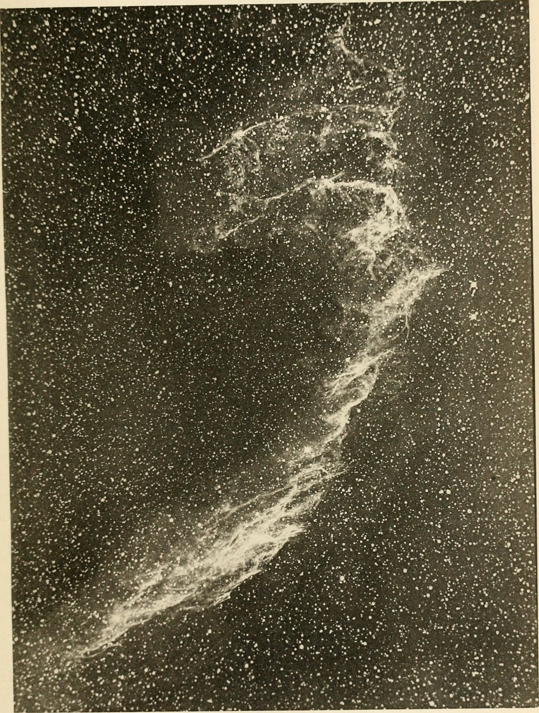 Title: Annual report of the Board of Regents of the Smithsonian Institution Year: 1846 (1840s) Authors: Smithsonian Institution. Board of Regents; United States National Museum. Report of the U. S. National Museum; Smithsonian Institution. Report of the Secretary Subjects: Smithsonian Institution; Smithsonian Institution. Archives; Discoveries in science Publisher: Washington : Smithsonian Institution Text Appearing Before Image: SMITHSONIAN REPORT, 1901. ABBOT, Text Appearing After Image: THE GREAT NEBULA IN CYGNUS. PHOTOGRAPHED BY G. V/. RITCHEY, WITH THE TWO-FOOT REFLECTING TELESCOPE OF THE YERKES OBSERVATORY. EXPOSURE THREE HOURS.